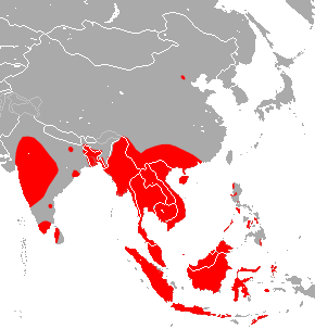 Black-Bearded Tomb Bat (Taphozous melanopogon) range